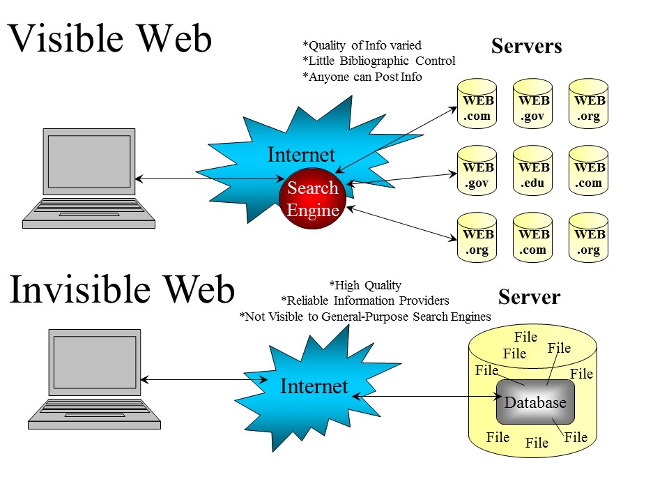 Illustration comparing results associated with Internet searching and Database Searching